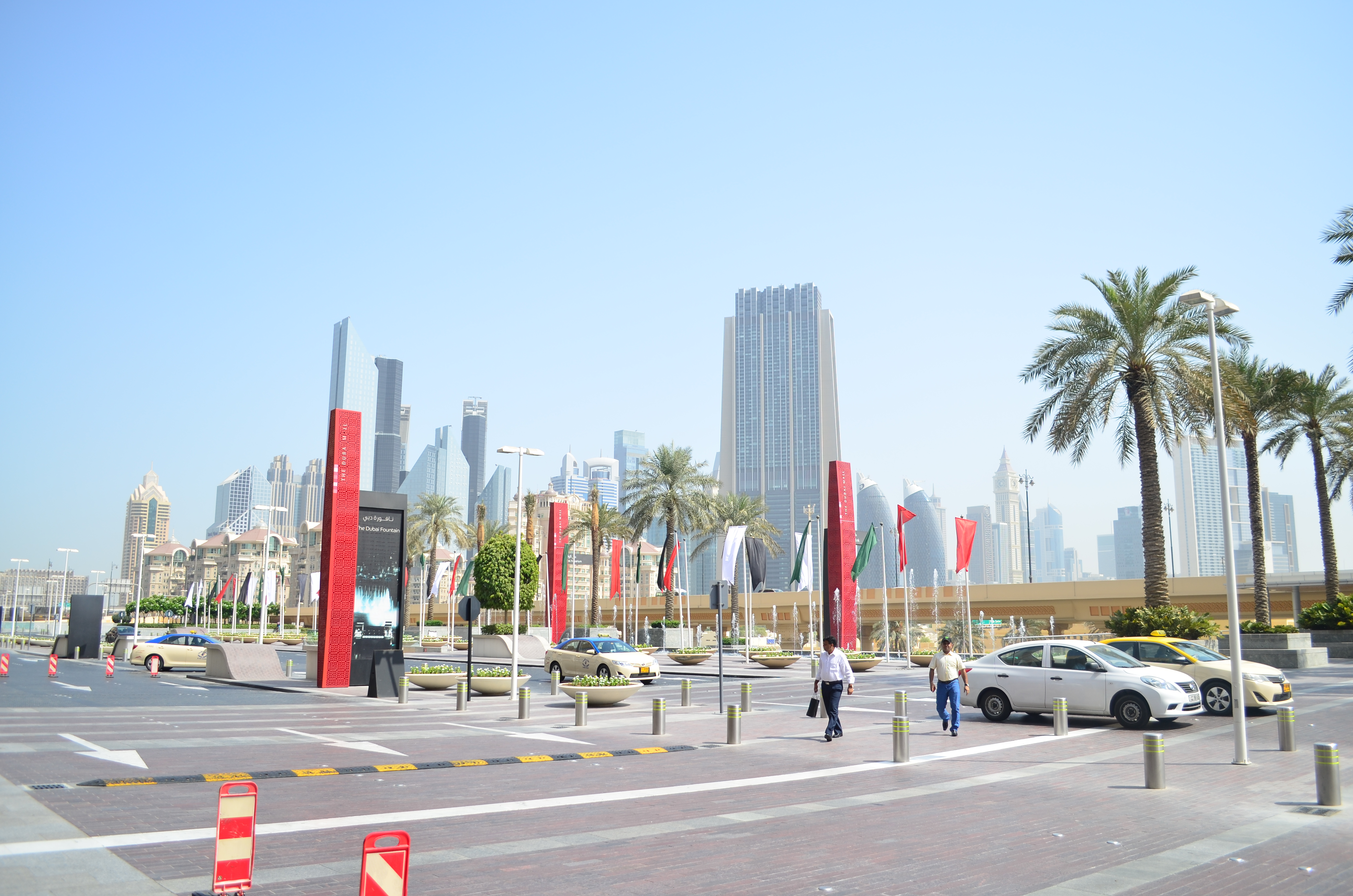 Dubai